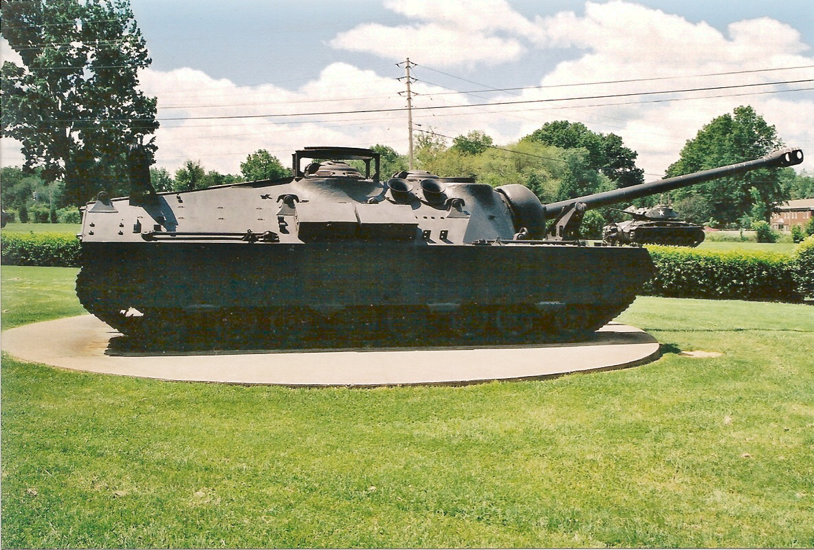 T28 at the Patton Museum